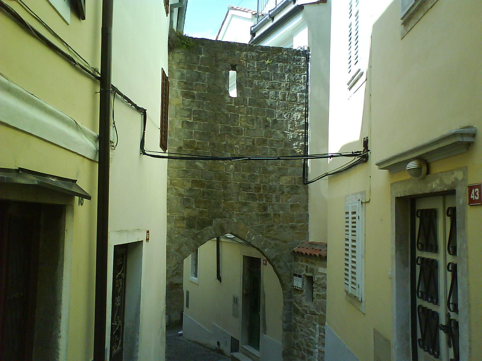 one of the fortification walls' door